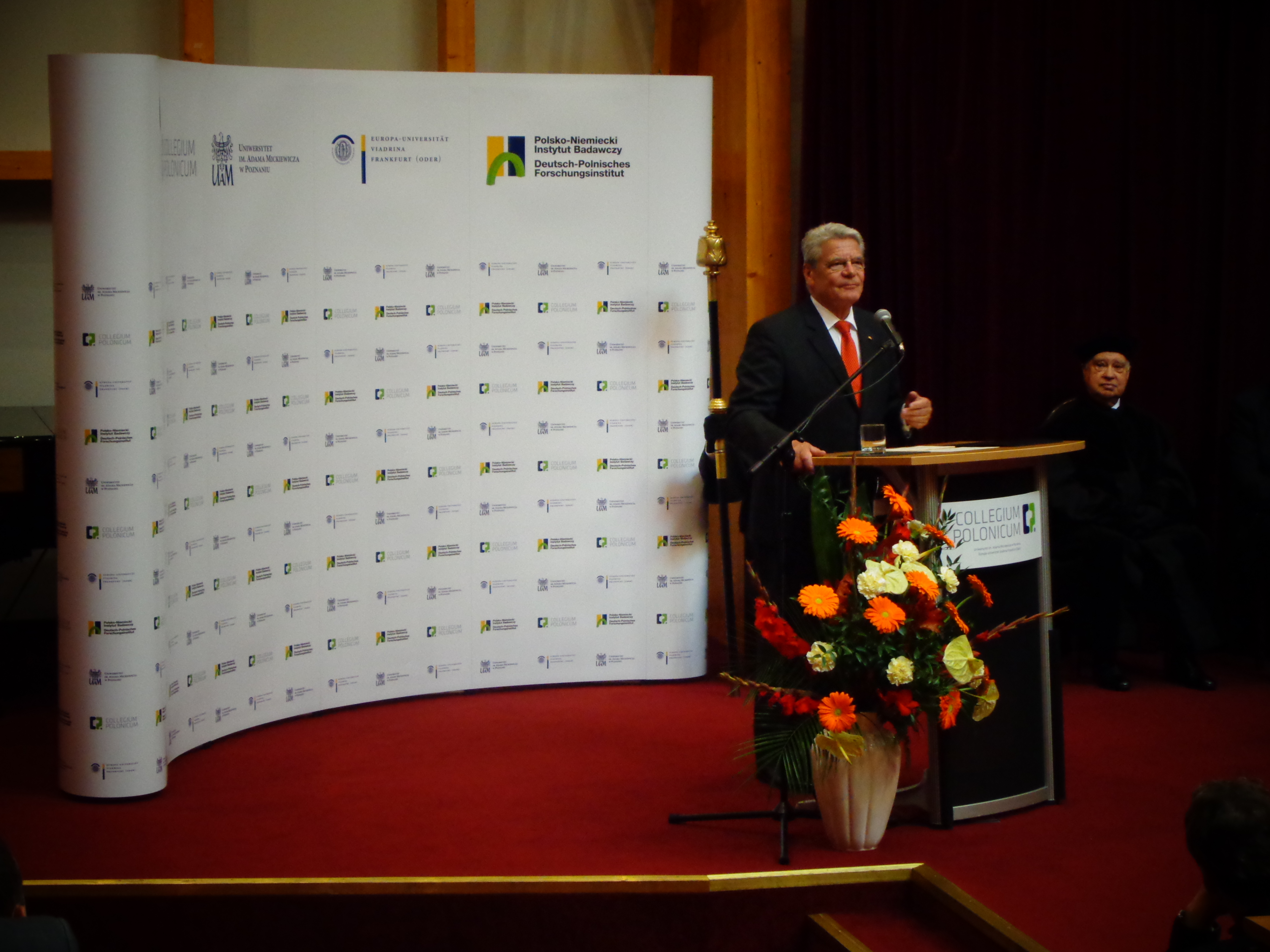 President of Germany Joachim Gauck giving his speech on the inauguration act of the academic year 2013-14 in Collegium Polonicum in Slubice on 18th October 2013. On the right margin the director of the German-Polish Research Institute Andrzej J. Szwarc.